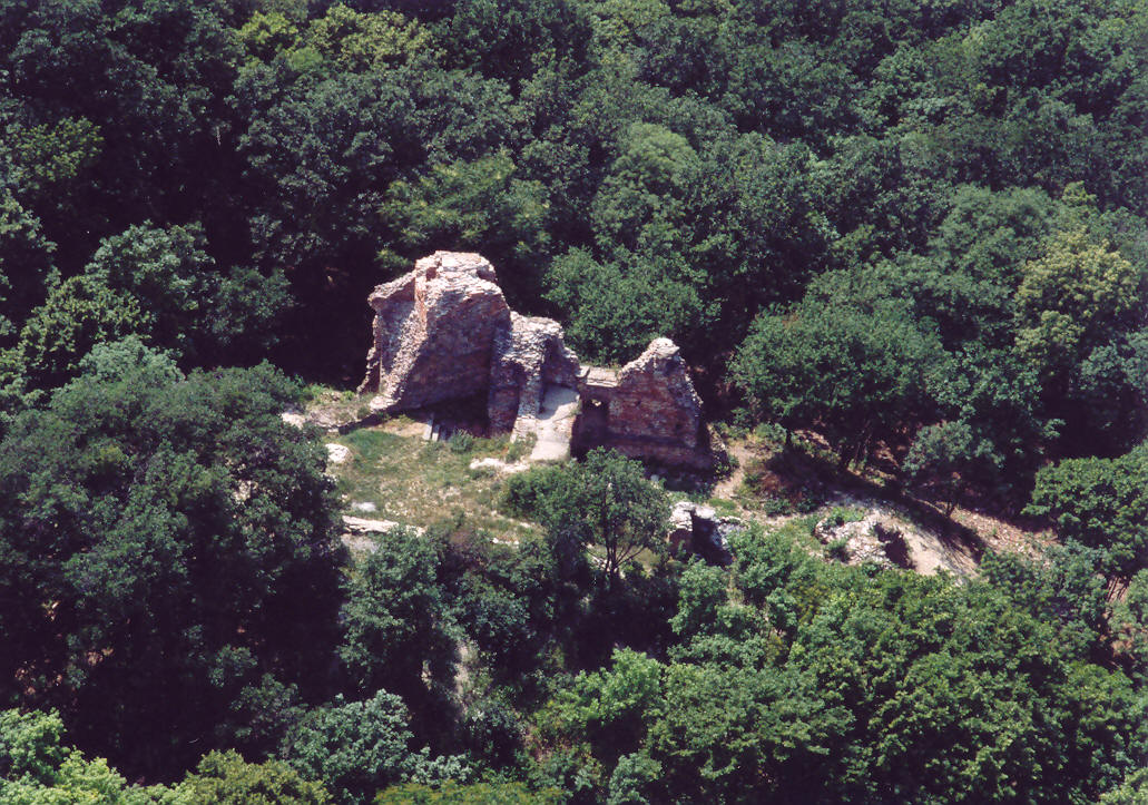 Castle - Kereki - Hungary - Europe